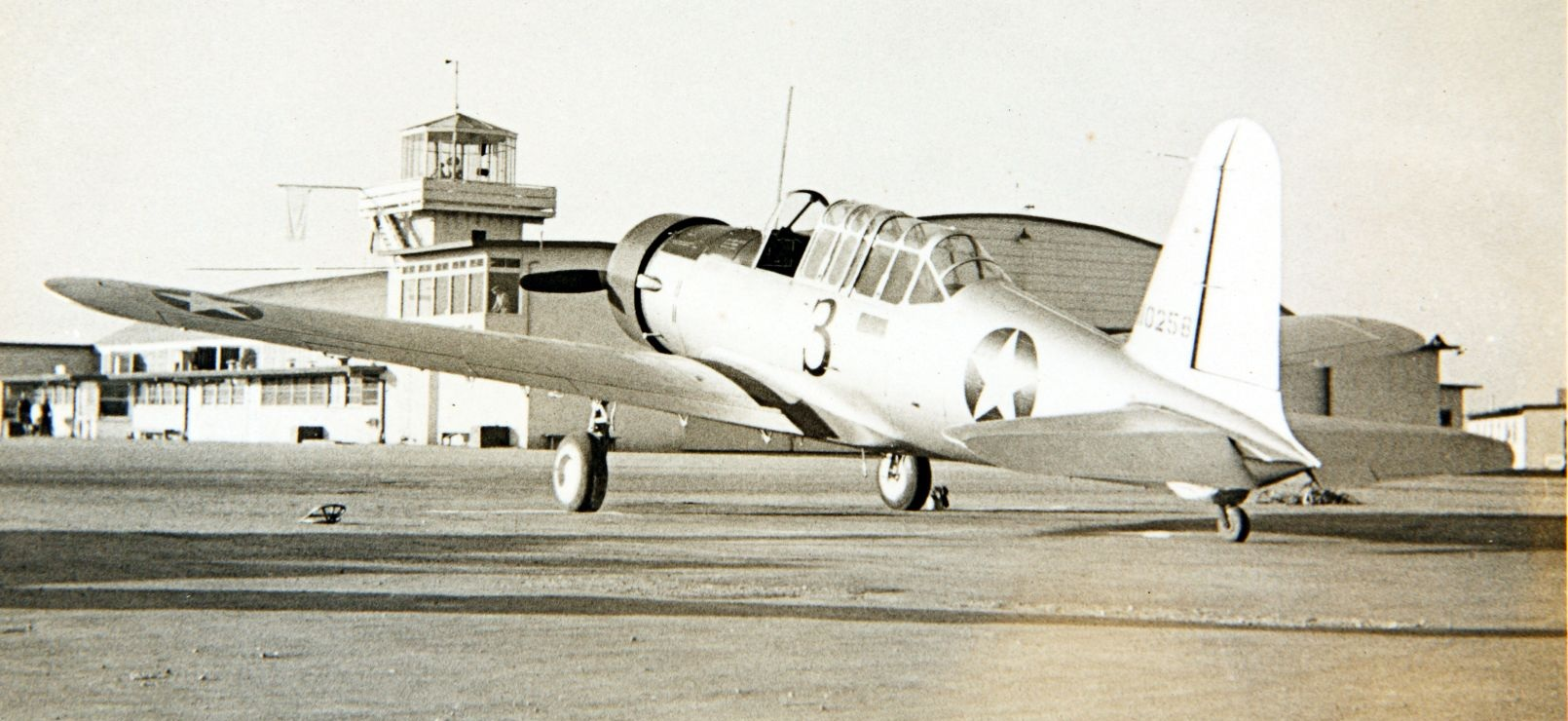 Vultee BT-15 basic trainer. S/N 41-10258. From the Stan V. Ballard Special Collection.